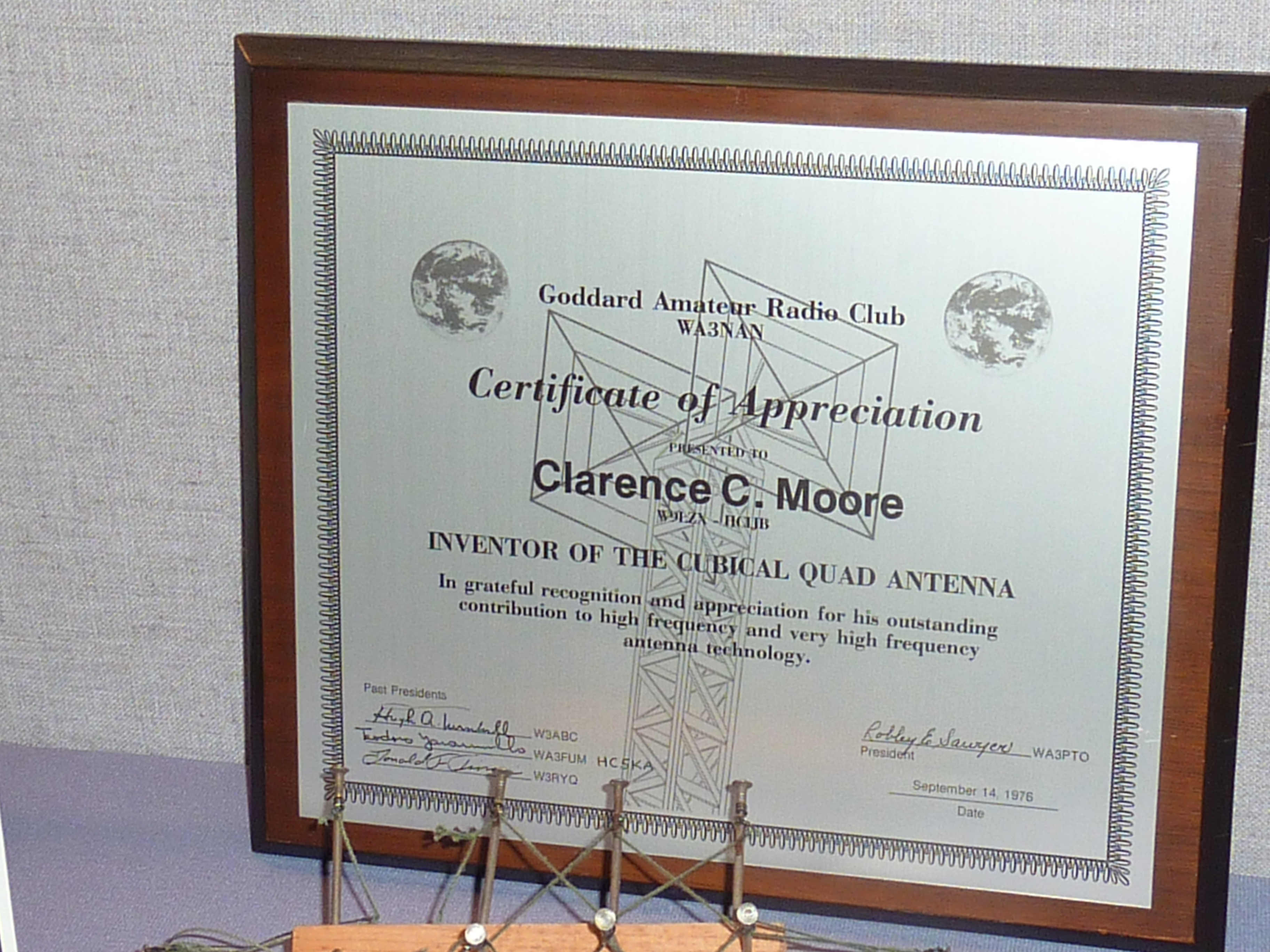 For Clarence Moore's outstanding contribution in antenna technology.